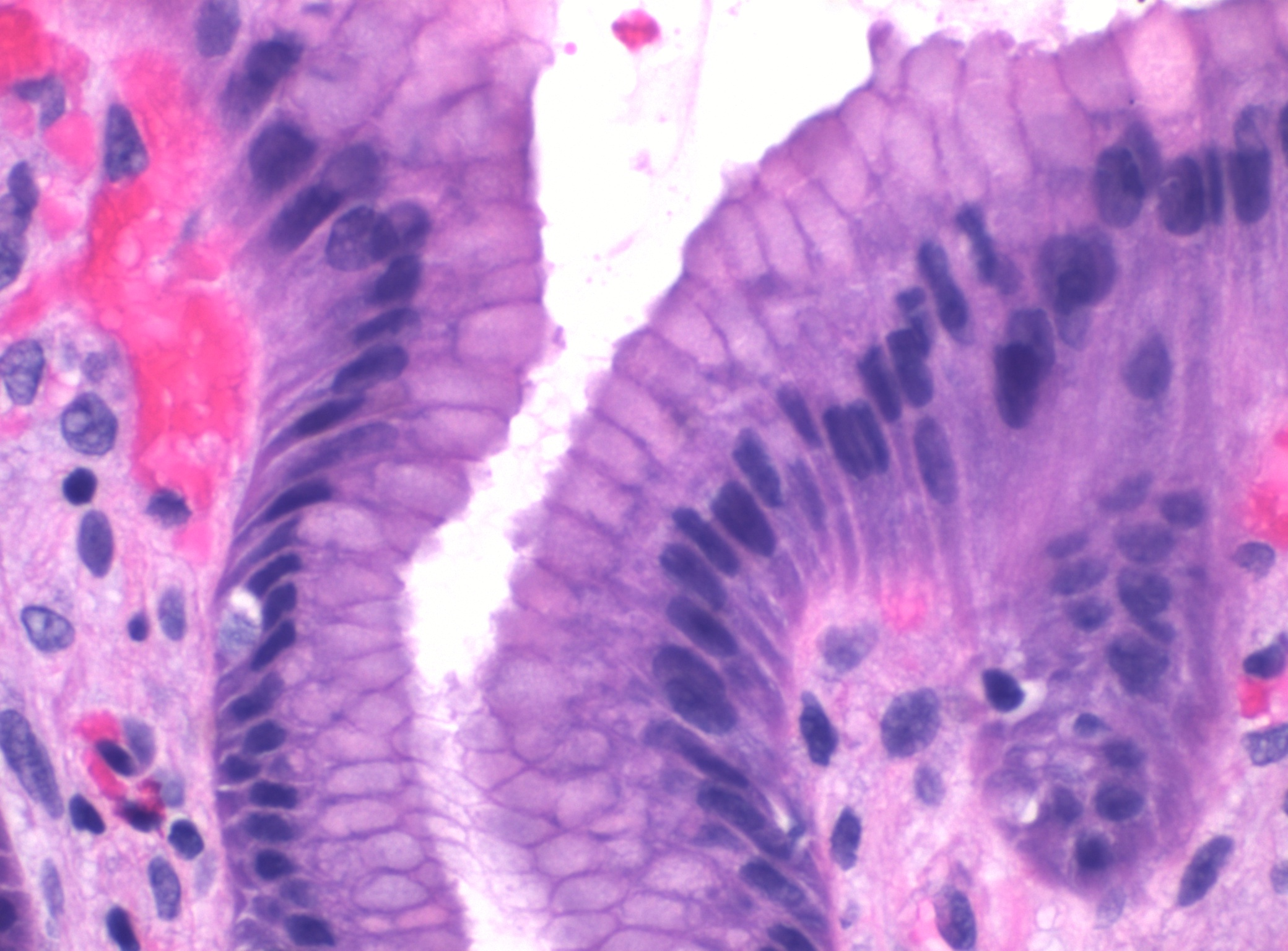 Foveolar cells, in this case in the antrum of the stomach.